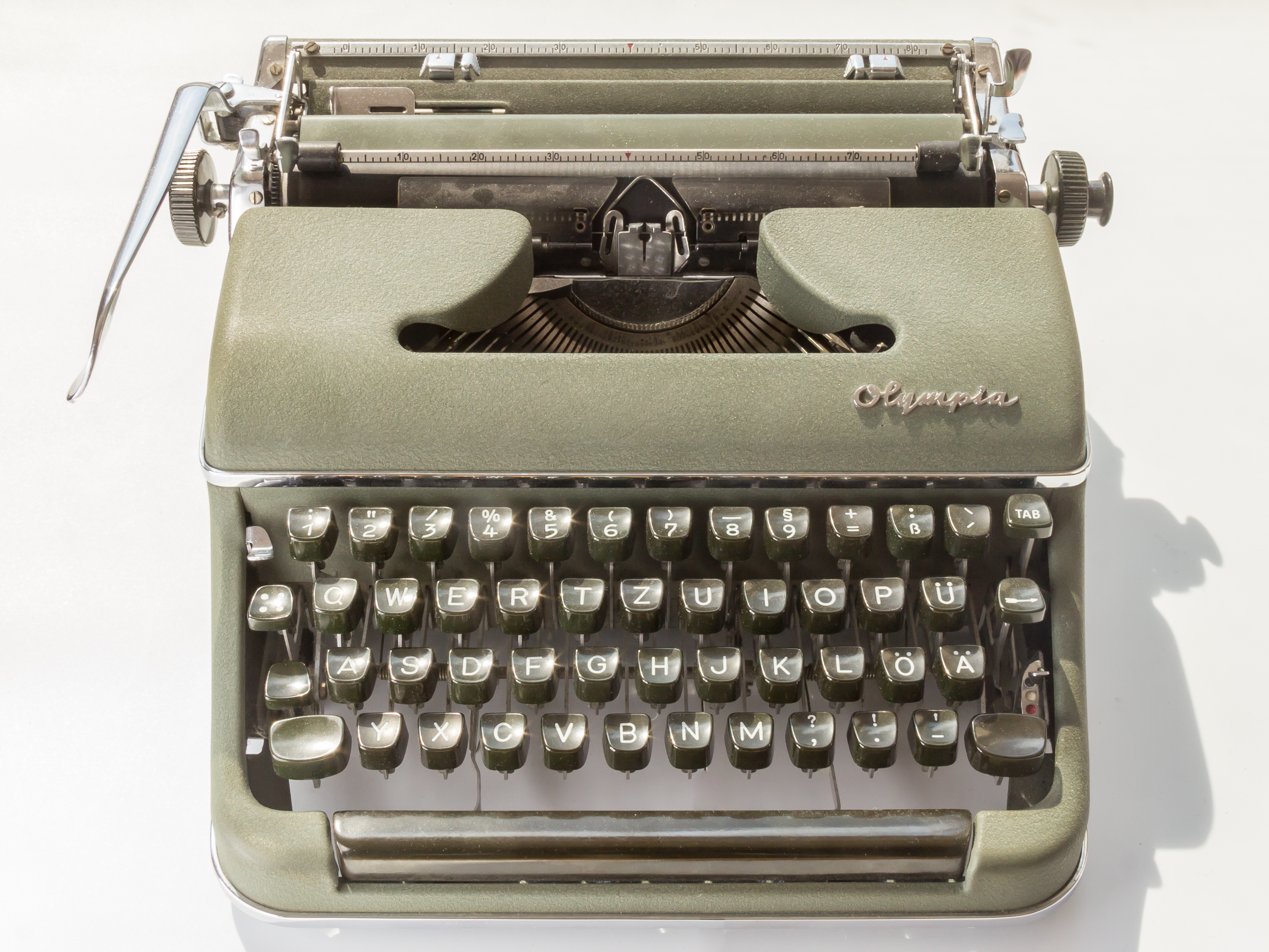 Olympia typewriter - German keyboard layout from 1954